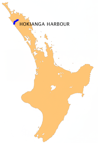 Location map of the Hokianga Harbour, New Zealand